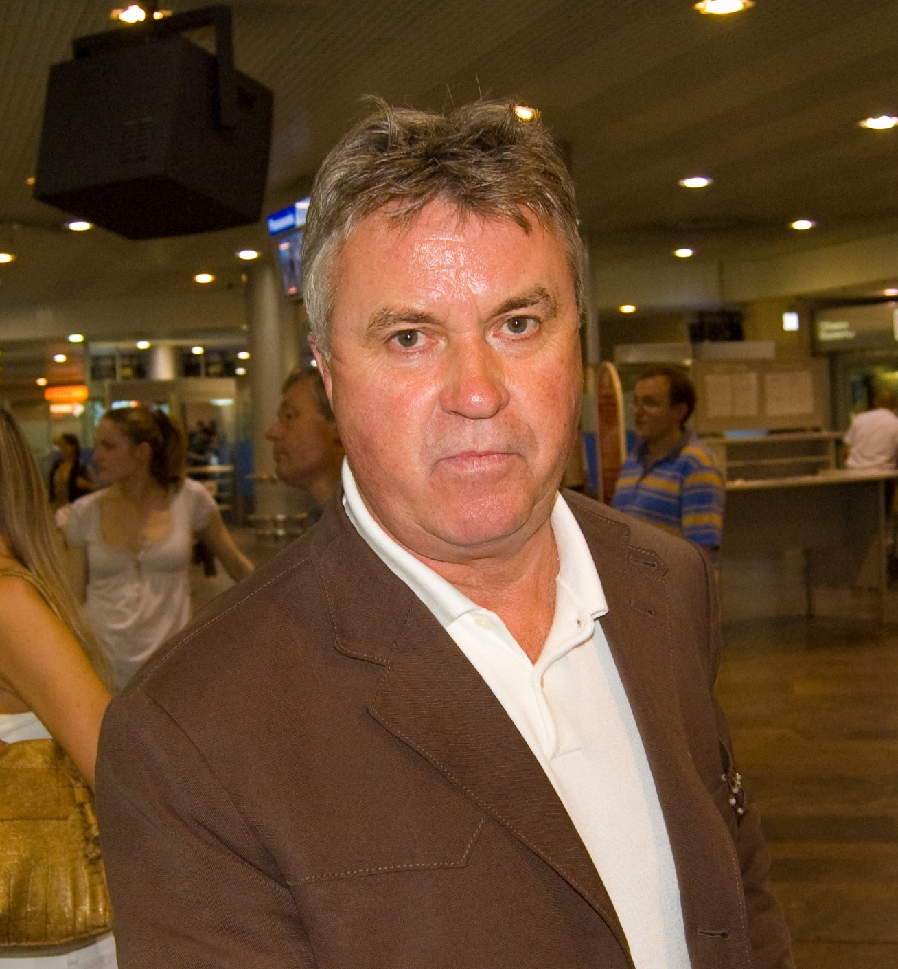 Without a doubt the best football coach in the world at the moment: Guus Hiddink, seen here at the Moscow Sheremetyevo Airport, about to start work for the national football federation once more.